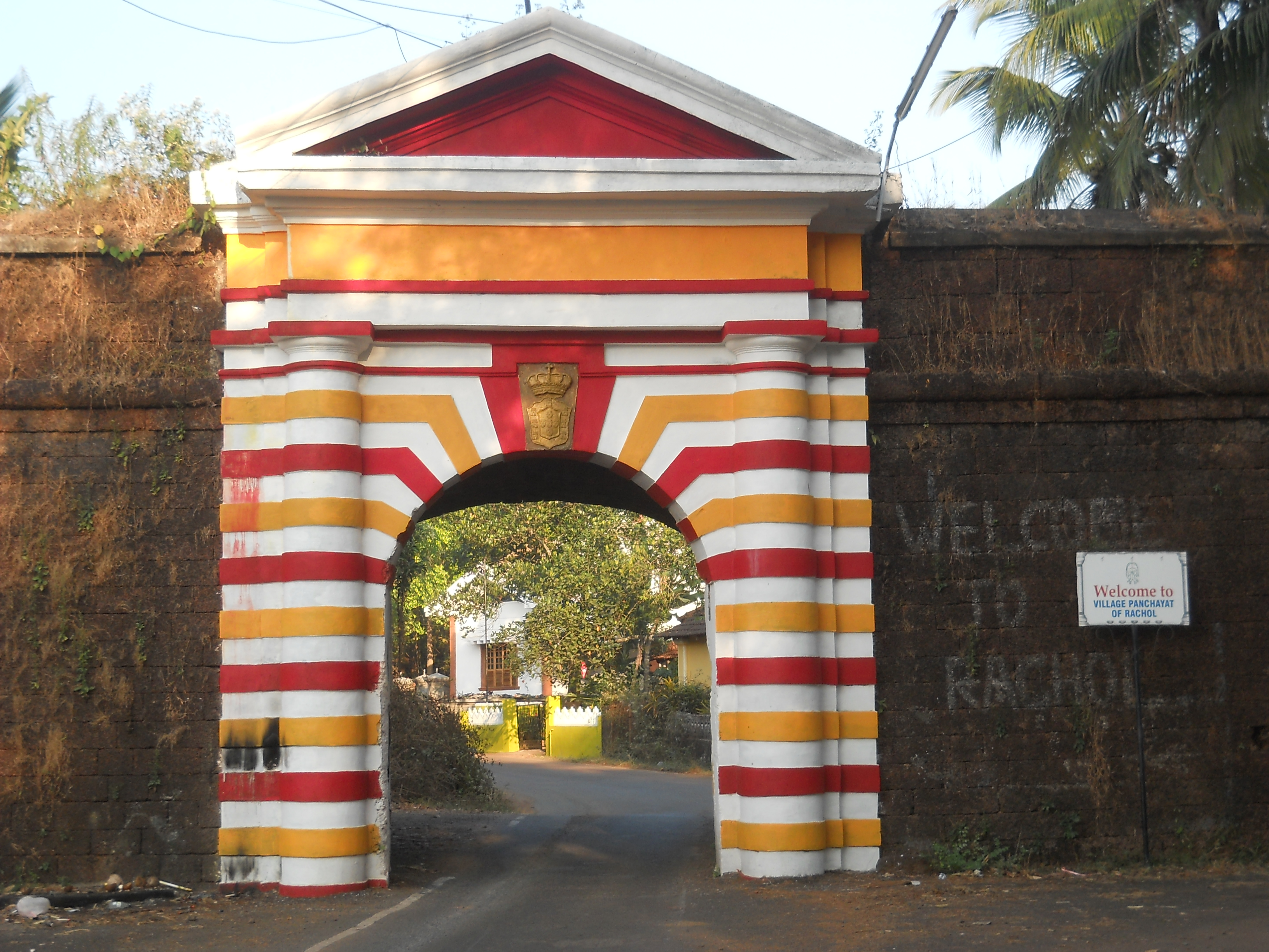 ruins of rachol fort